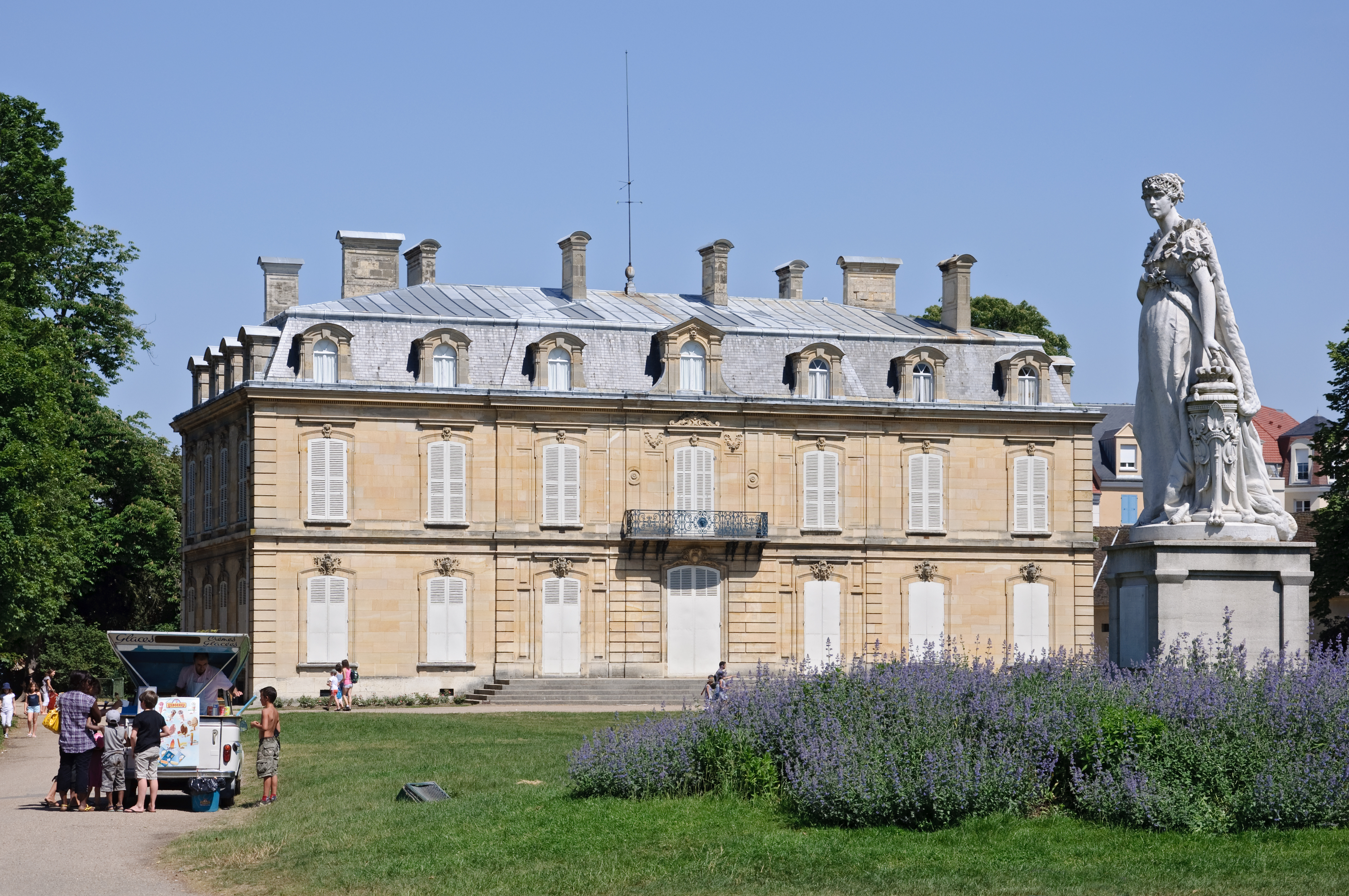 Spring day in the park of Bois-Préau castle, part of the Malmaison estate, in Rueil-Malmaison (Hauts-de-Seine, France). In the foreground, a statue of Joséphine de Beauharnais by Gabriel-Vital Dubray.